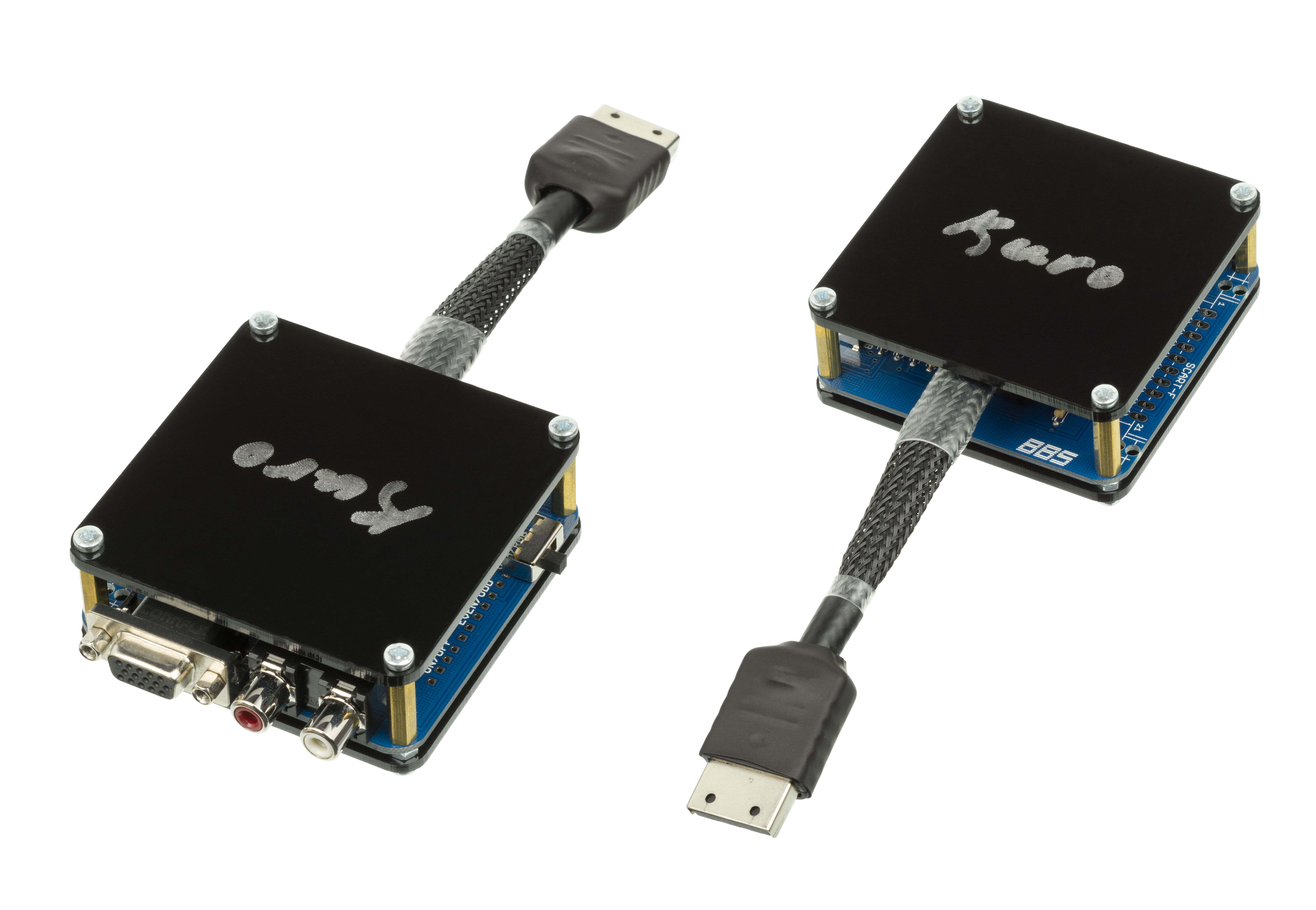 A Kuro VGA box for Sega Dreamcast. The VGA box allowed for 640x480 progressive video out of the Dreamcast, but the official version from Sega was rare and expensive. With renewed interest in retro gaming and many HDTVs offering VGA input, these VGA boxes became highly sought after by enthusiasts. Older third party versions of varying quality were available, but decided to make new boxes that would offer advanced options like scanlines and SCART connectivity. The Kuro is one of the models available from them, and is the simplest, offering only VGA support.